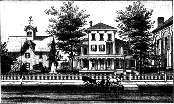 Lovell-Webber House Ionia Mich